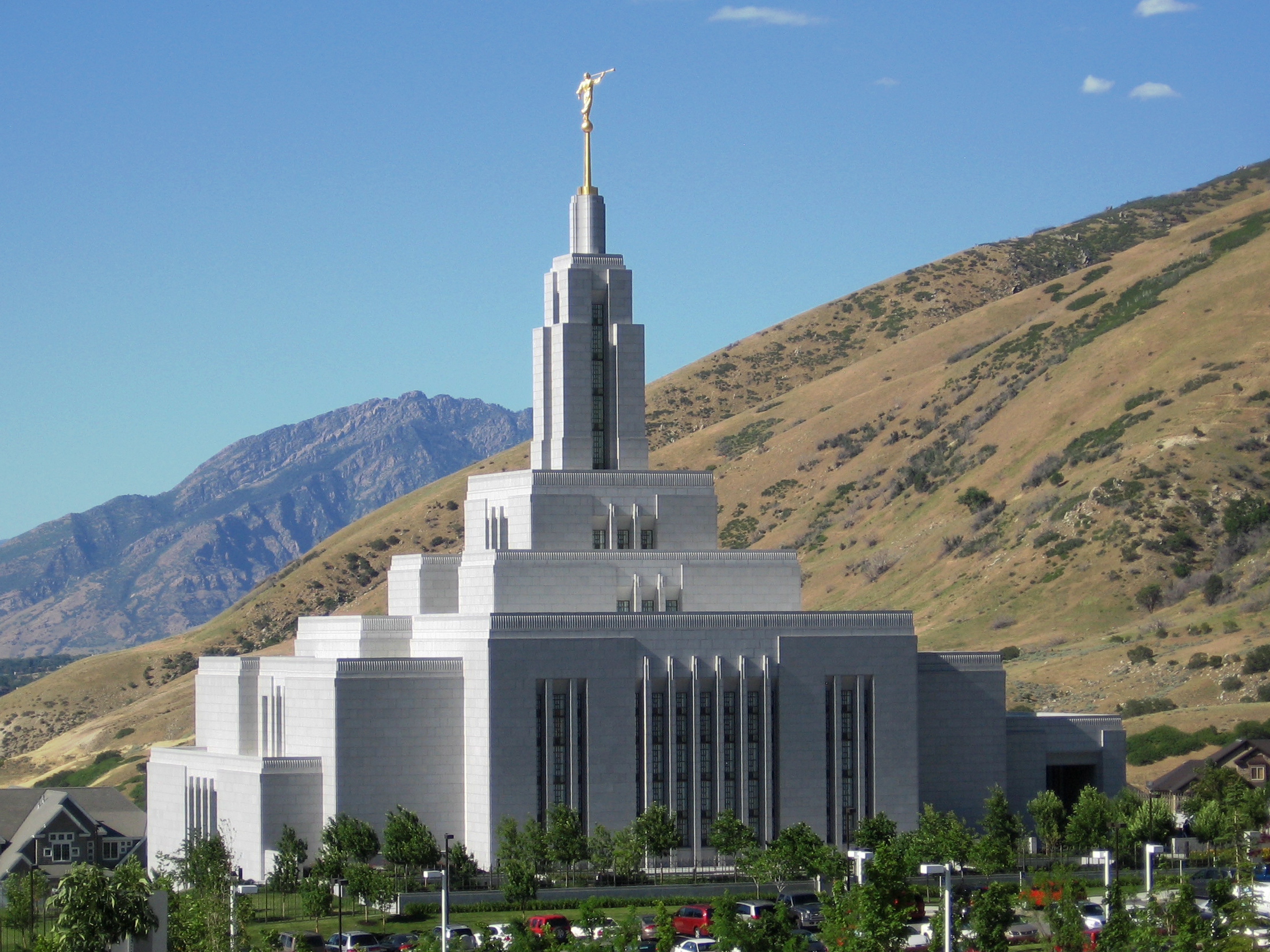 Draper Temple of the Church of Jesus Christ of Latter-day Saints (LDS), located in Draper, Utah, USA.